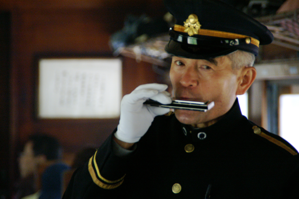 The guard plays a harmonica to entertain all passengers. on Ohigawa railways, Shizuoka, JAPAN